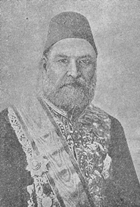 Agah Efendi, scanned from Posta magazine, ıssue 183.